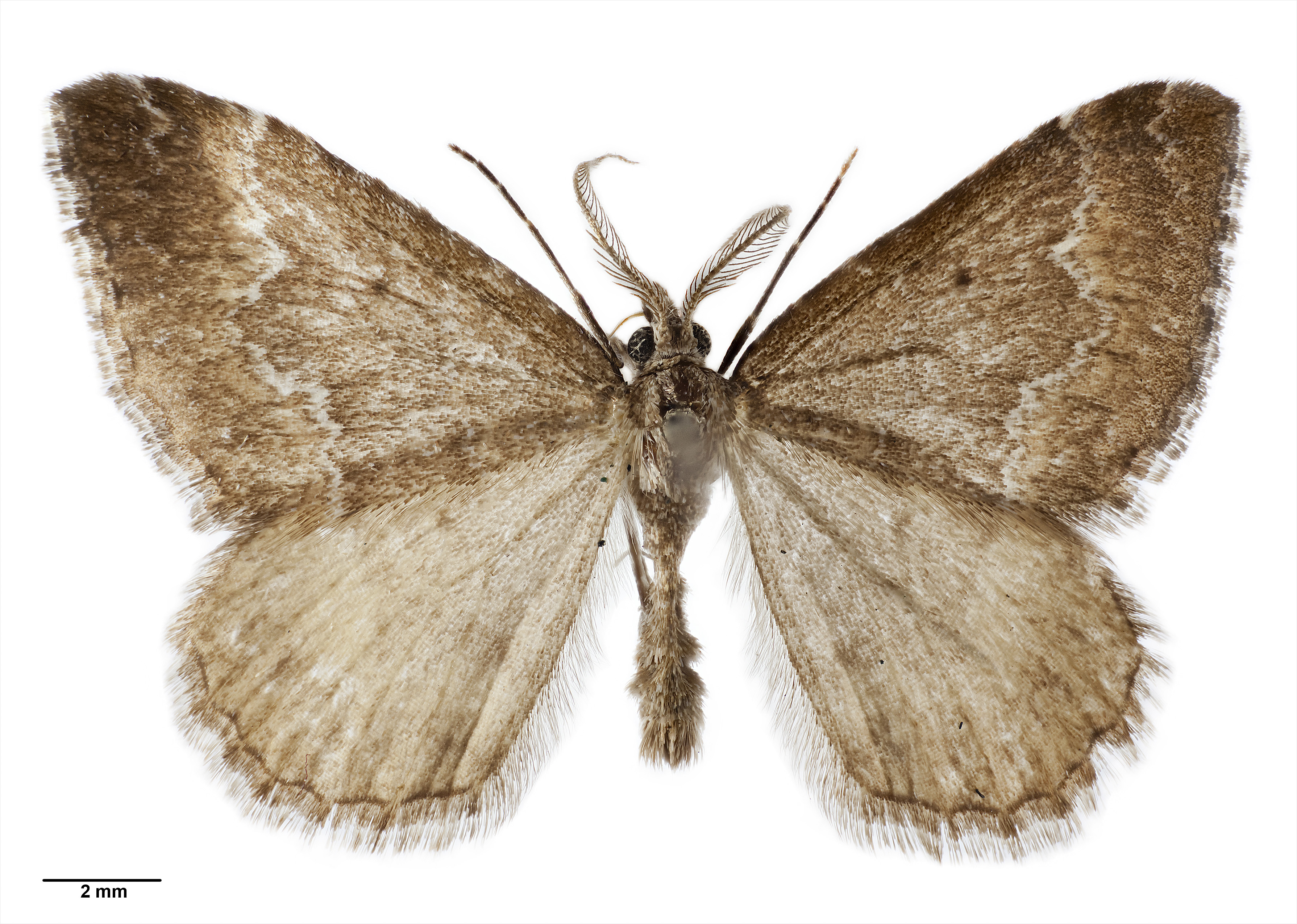 Dorsal view of Asaphodes ida AMNZ21823 holotype specimen held at the Auckland War Memorial Museum.